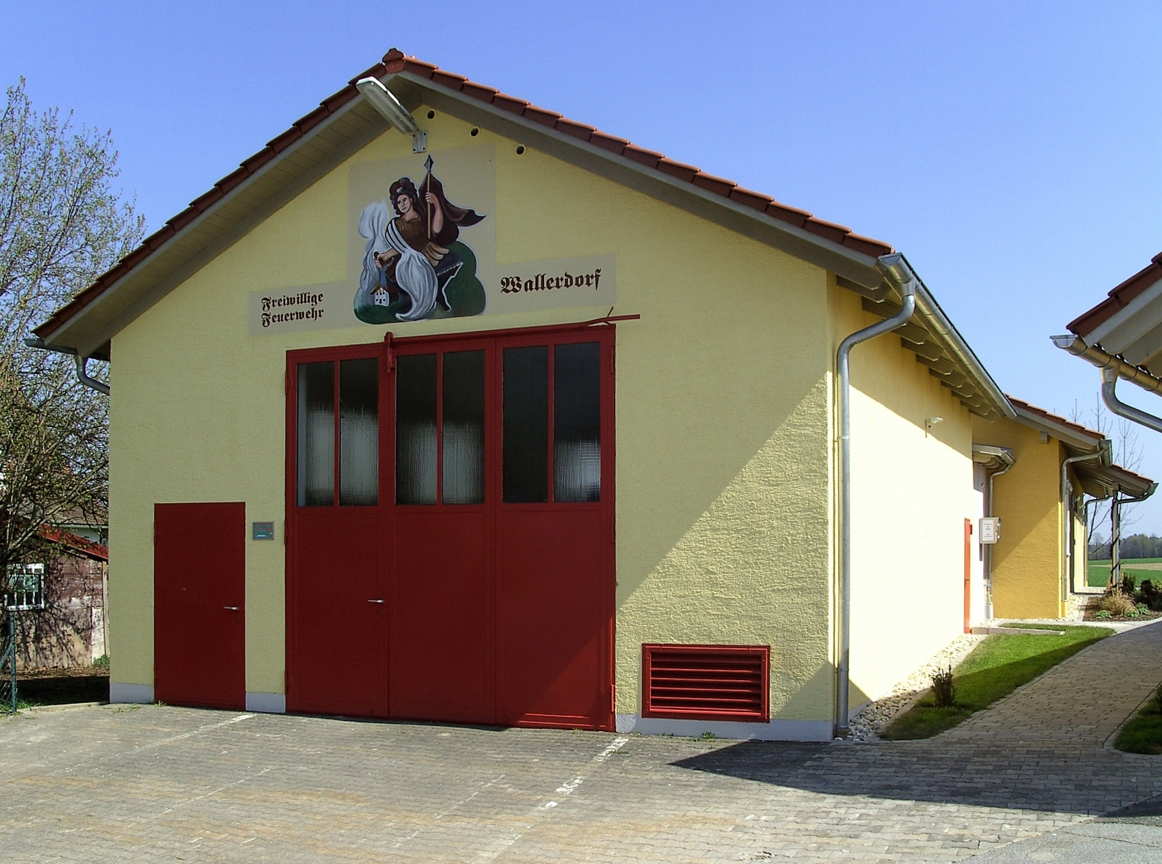 Fire station in Wallerdorf near Künzing in Bavaria, Germany.